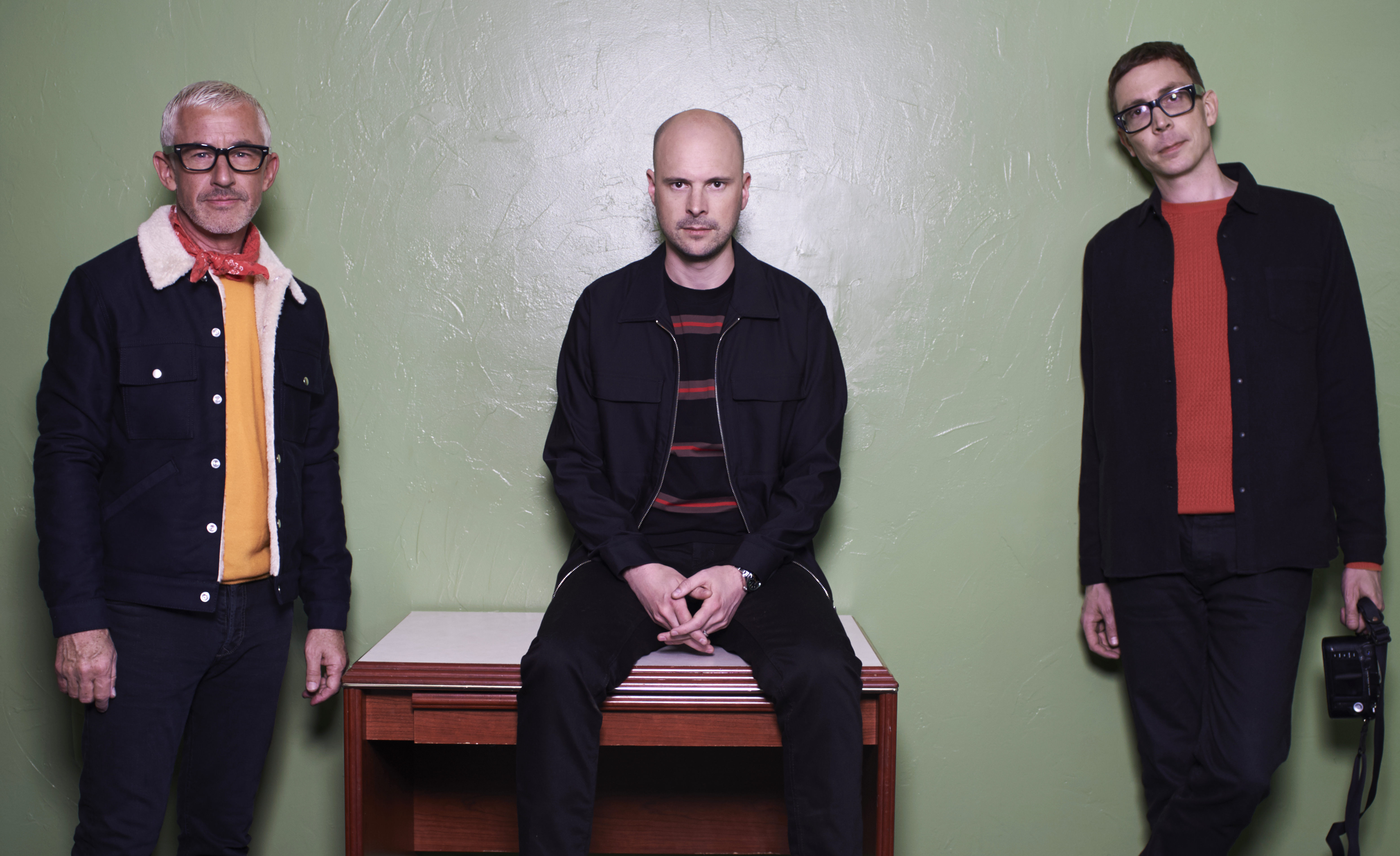 Above & Beyond Common Grounds, Tony, Jono & Paavo